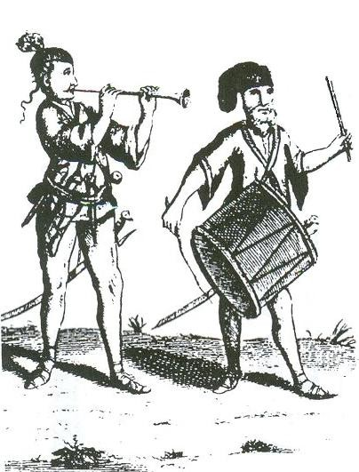 Tárogató player (ancient double-reeded tárogató) with drummer